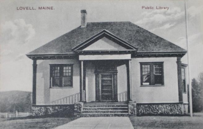 Charlotte Hobbs Memorial Library, Lovell, Maine. The library was incorporated in 1901.